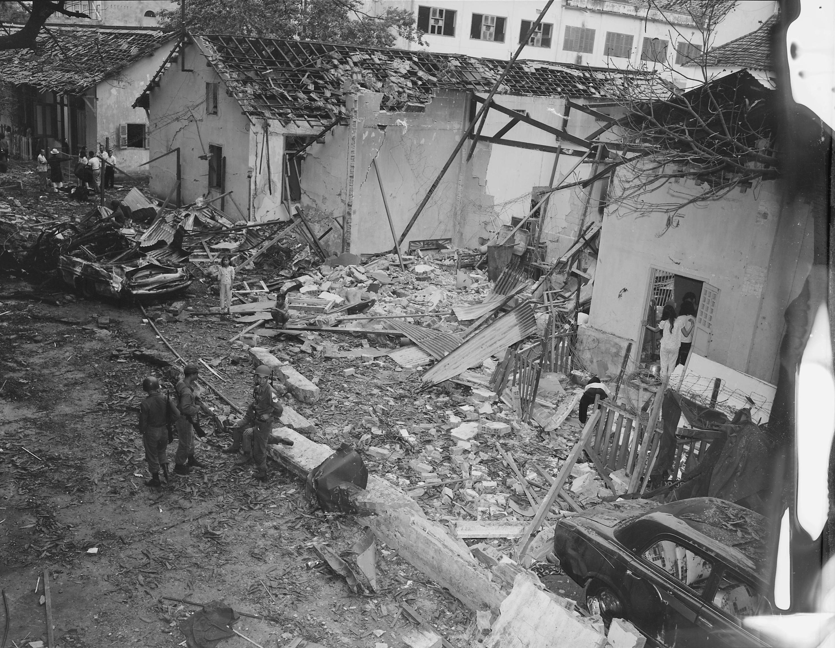 At 5:55 p.m. on December 24, 1964, Viet Cong terrorists exploded a bomb in the garage area underneath the Brinks Hotel in Saigon, South Vietnam. The hotel, housing 125 military and civilian guests, was being used as officers' billets for U.S. Armed Forces in the Republic of Vietnam. Two Americans were killed, and 107 Americans, Vietnamese, and Australians were injured. Small buildings at the rear of the Brinks Hotel were completely destroyed by the force of the blast.